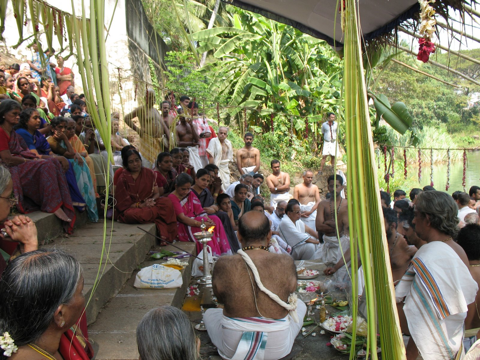 Dr.Sambasivan performing Thaipoosam at banks of Karamana River 1/21/2008